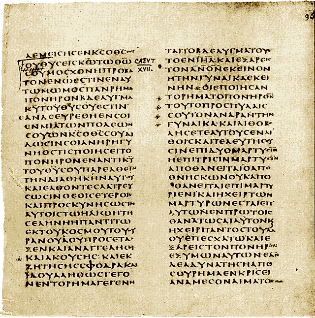 Asterisk